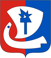 Pavlovo (Nizhny Novgorod oblast), coat of arms